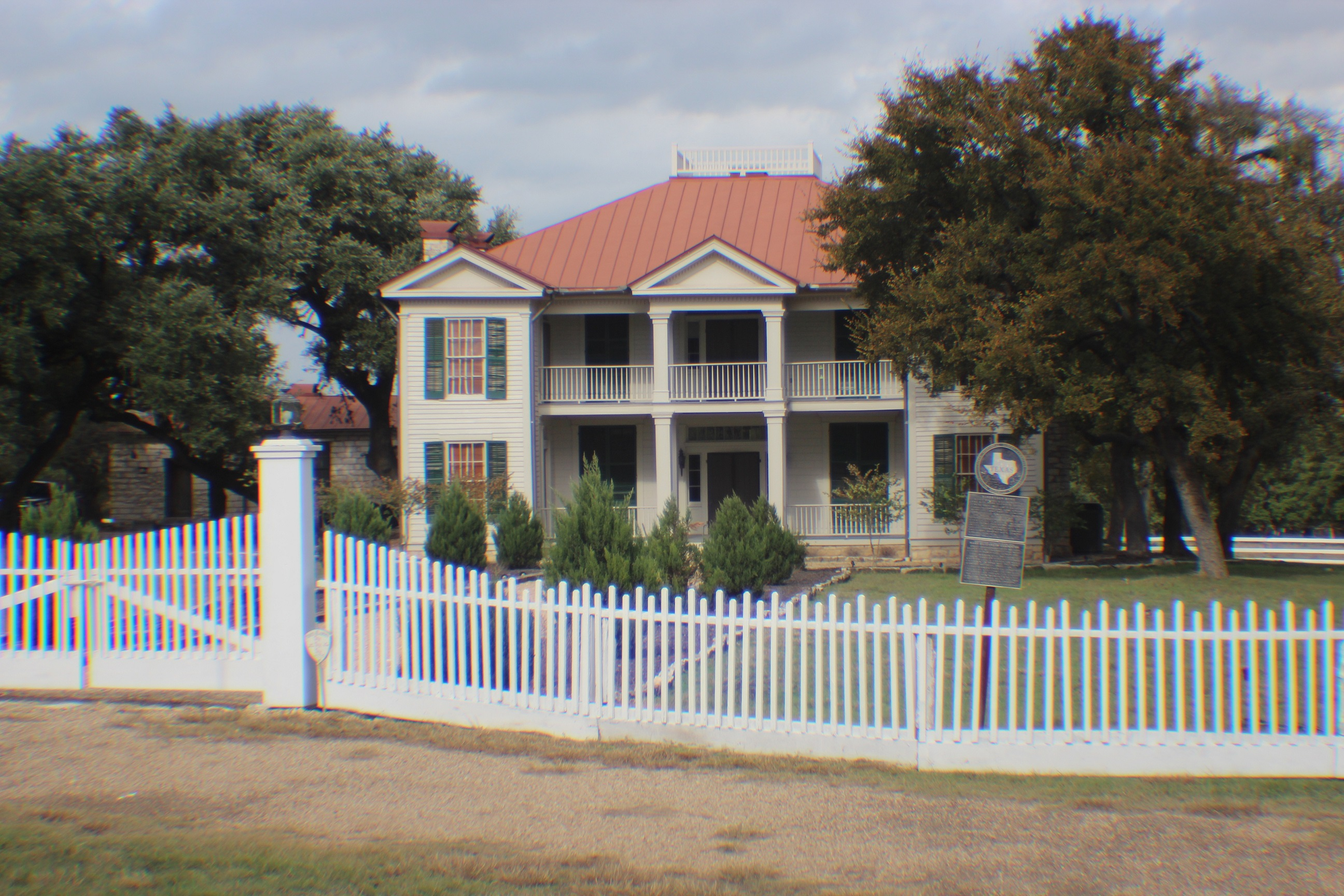 Home of Elijah Sterling Clack Robertson. This house was built 1856-1860 by Elijah Sterling Clack Robertson. 1820-1879 Texas pioneer, patriot, soldier and jurist, and one of the founders of Salado College. #2535